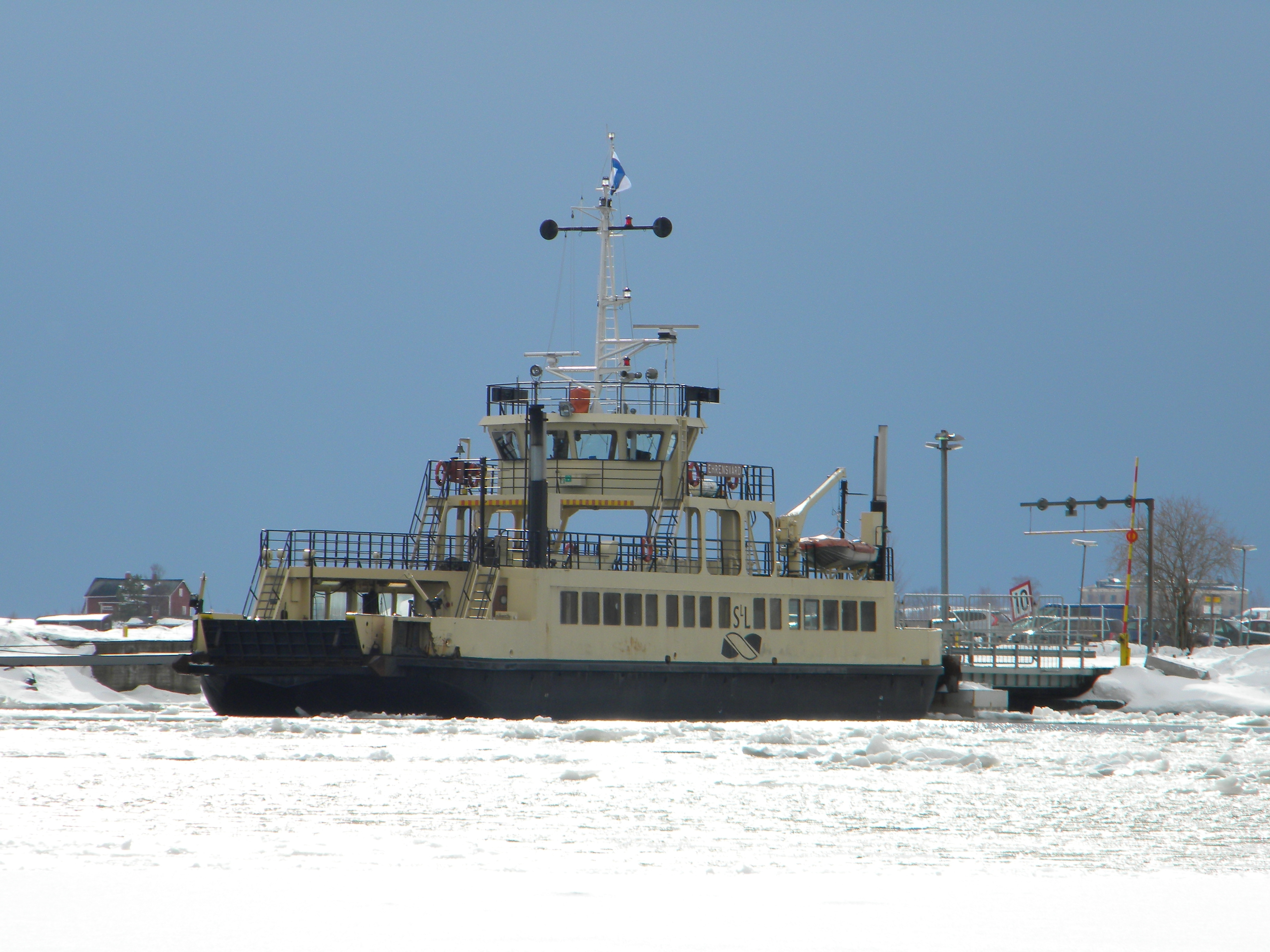 The service ferry m/s Ehrensvärd sails between the Suomenlinna Sea Fortress and Helsinki city even on the winter.